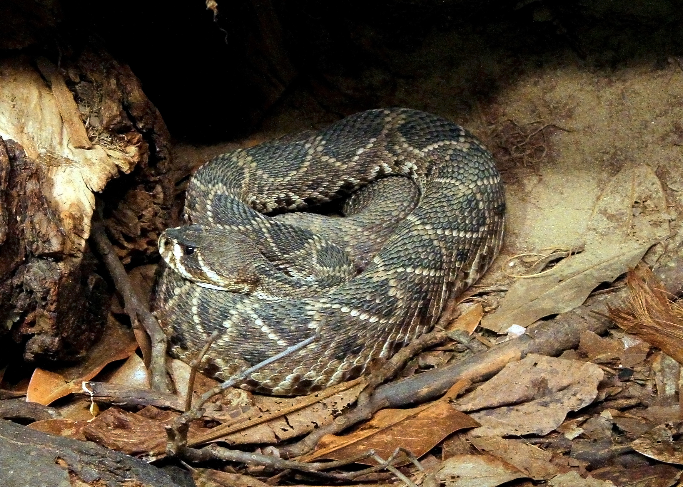 Eastern diamondback - Crotalus adamanteus taken at the Cincinnati Zoo and Botanical Garden